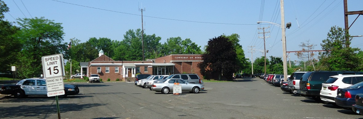 Police station and parking lot with train station on the right in Berkeley Heights, New Jersey.